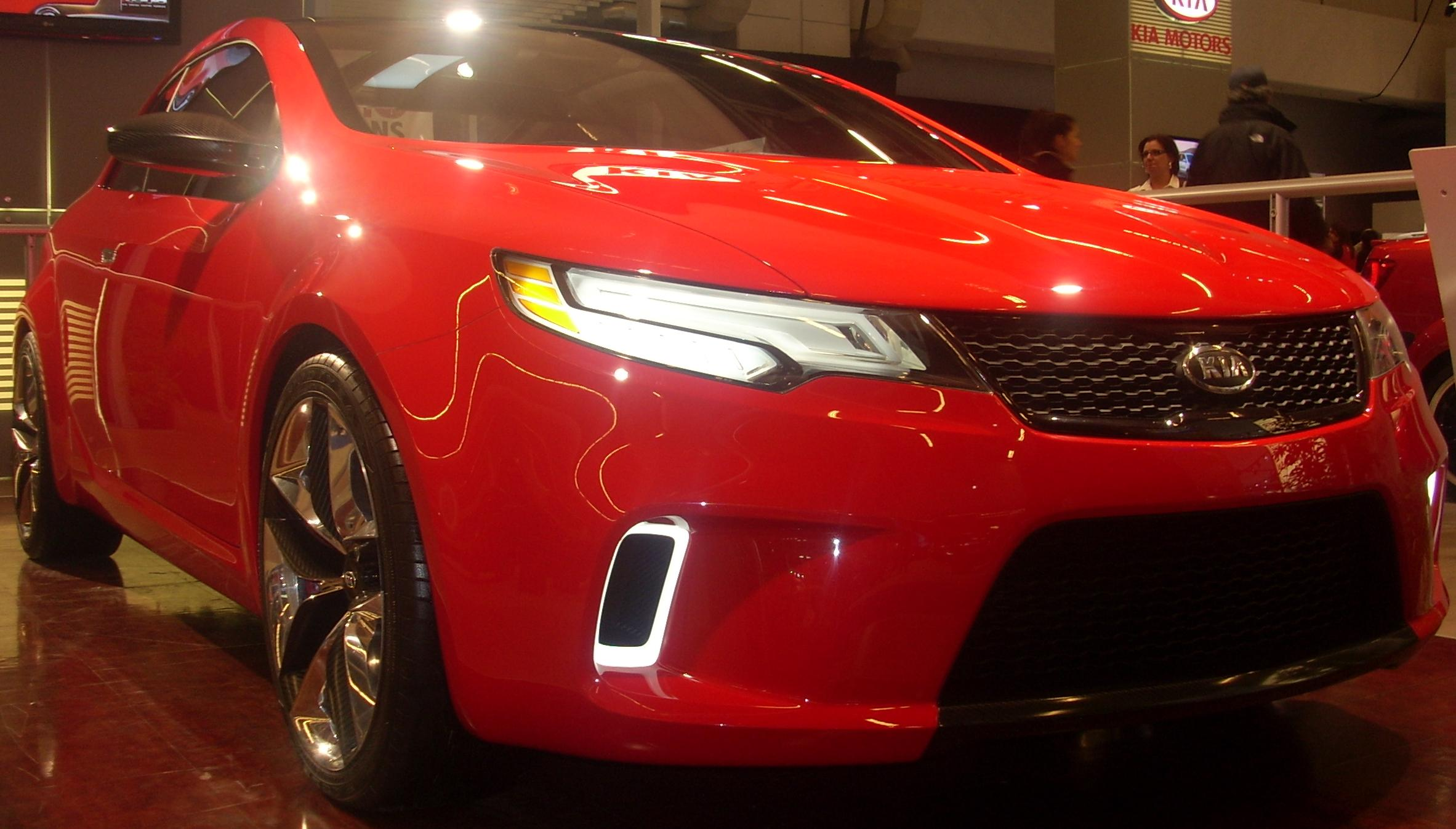 Kia Koup photographed at the 2009 Montreal International Auto Show